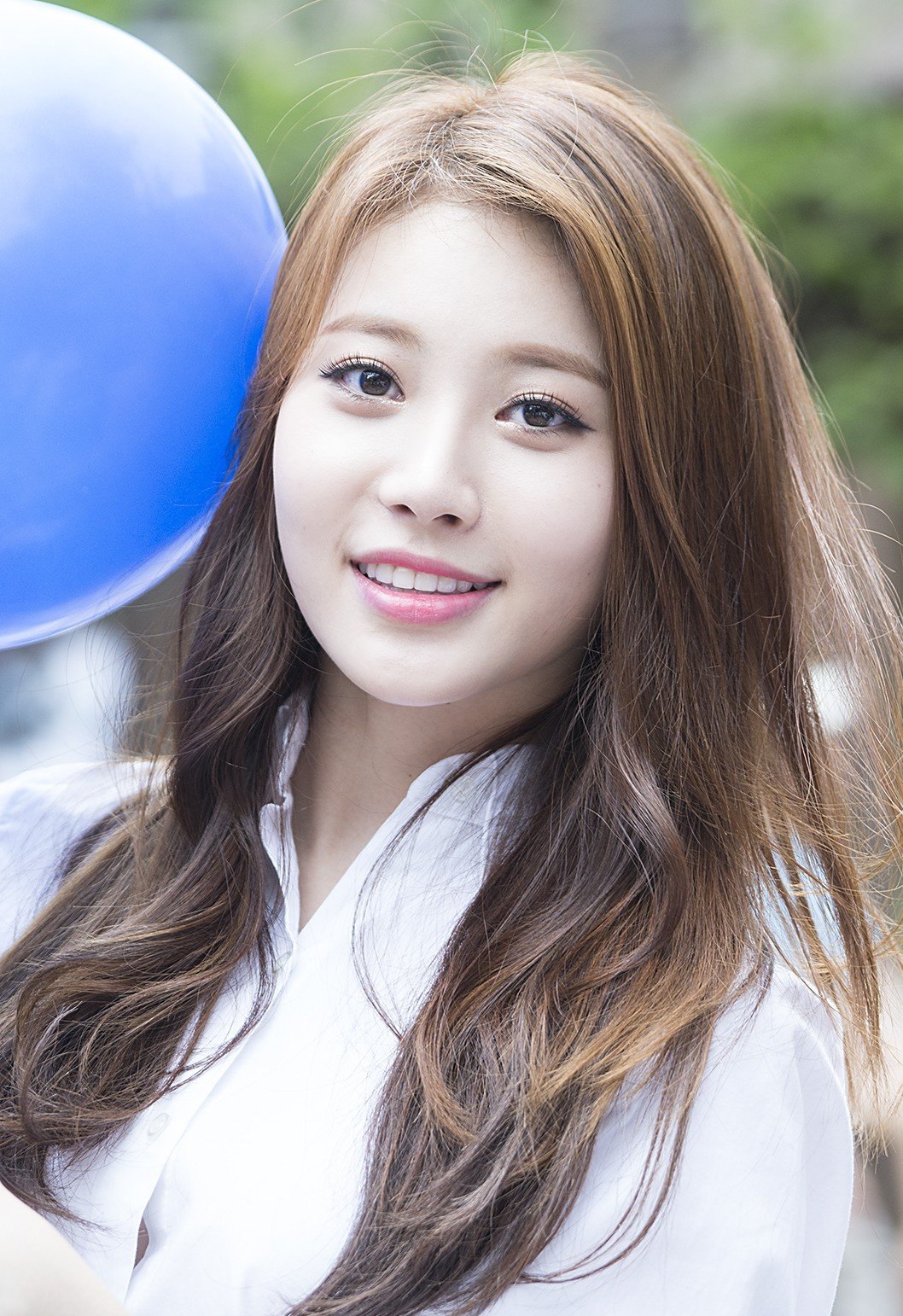 Yura at an event for Everland Korea, 7 June 2014